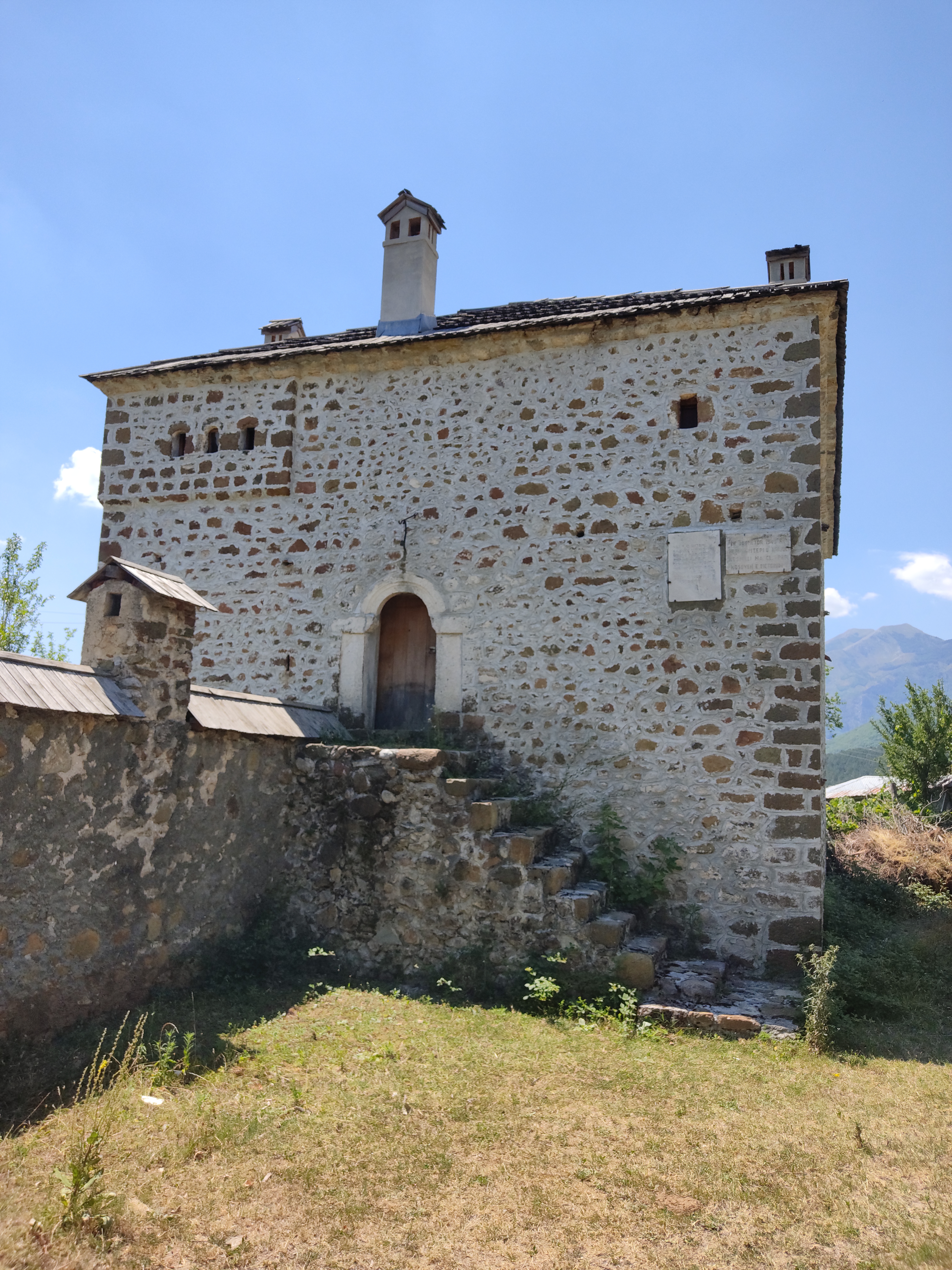 Sali Mani Kulla (Tower) Bujan, Bajram Curr, Albania The Conference of Bujan was held in this house on December 30,1943